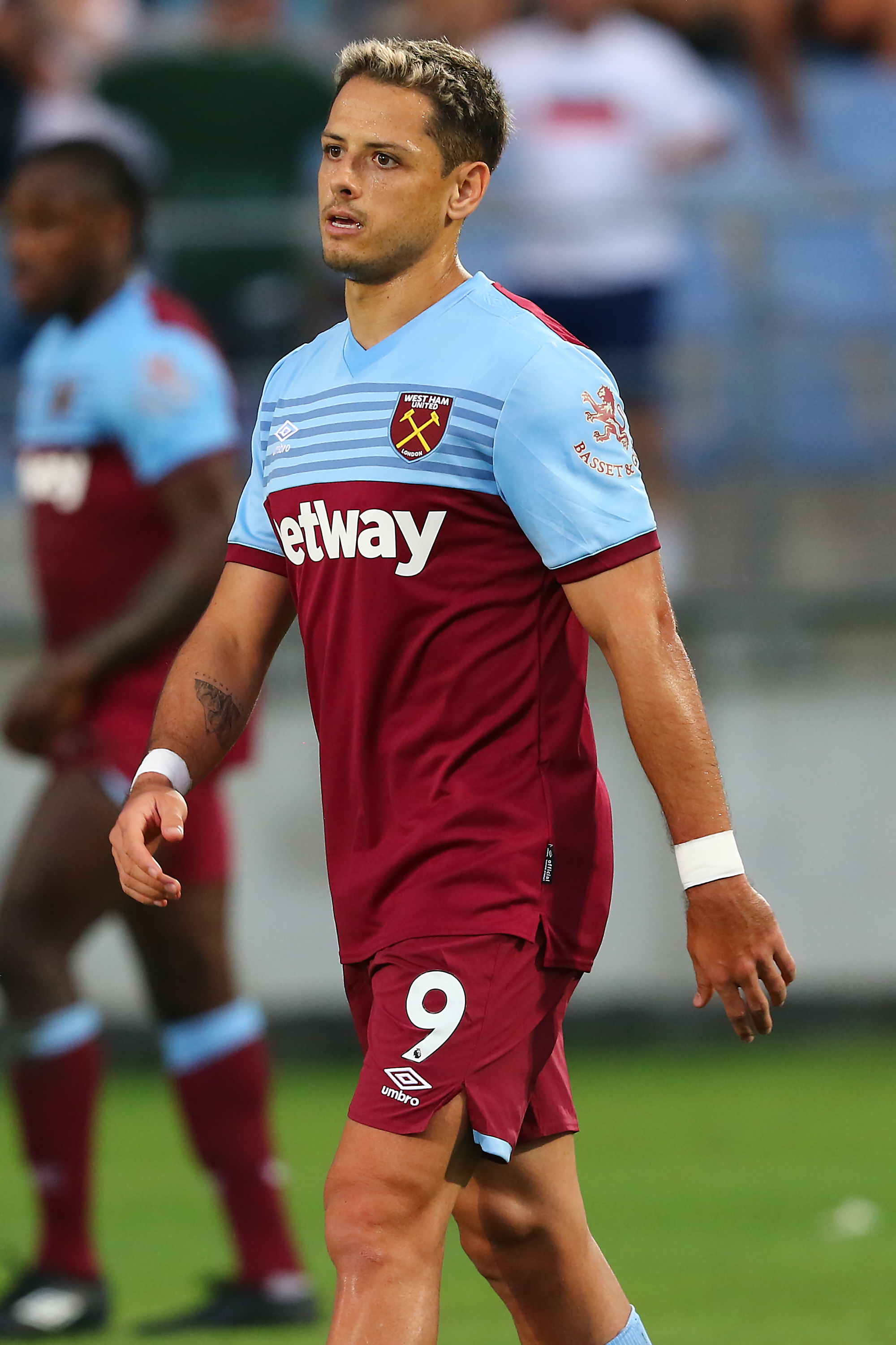 Friendly match Hertha BSC (blue-white shirts) vs. West Ham United (red-blue shirts) at 31-07-2019 3-5 (3-2) in the Sonnenseestadium in Ritzing. – The photo shows Javier Hernández Balcázarz "Chicharito" (West Ham United).